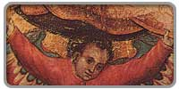 Angelas erelio sparnais